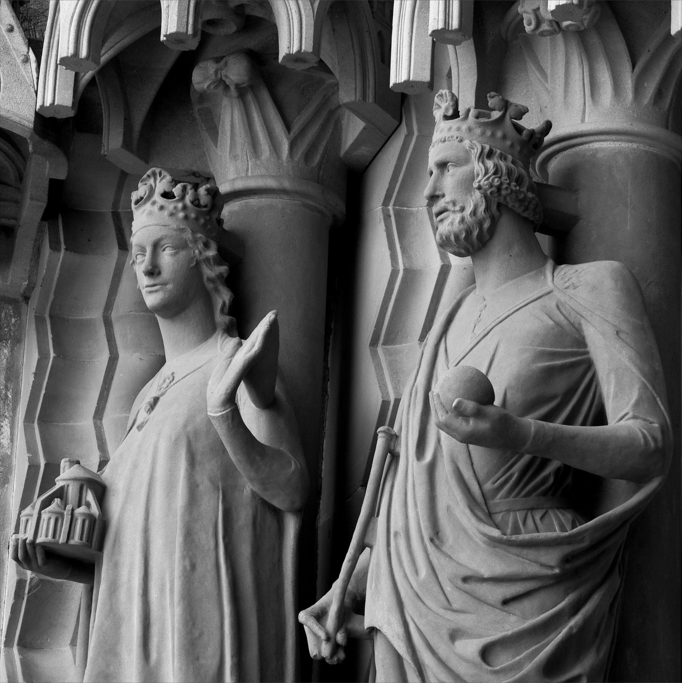 Adam gate at Bamberg Cathedral sights of Bamberg, Germany